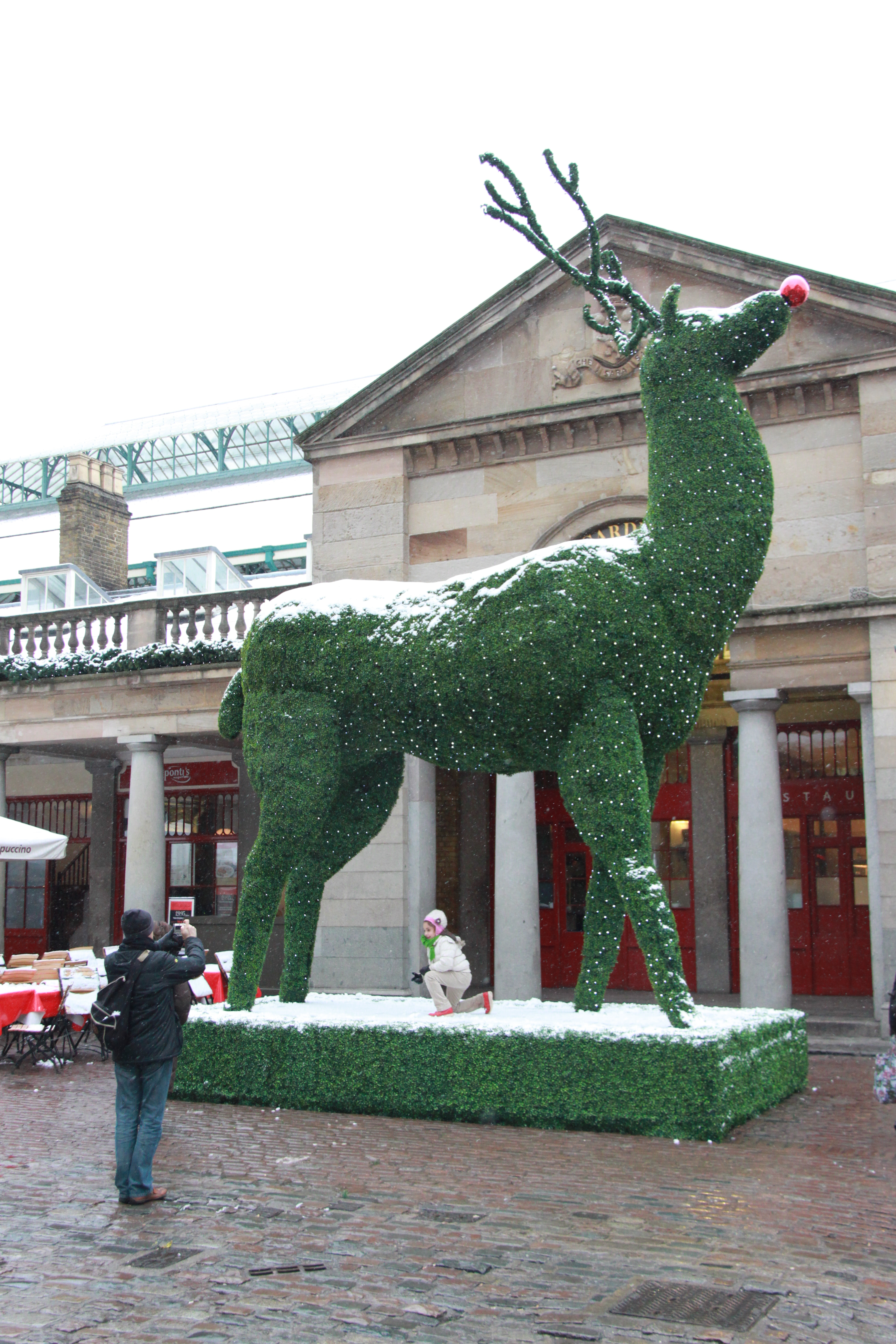 Child poses for a photo under a large green reindeer with a red nose (December 2010)